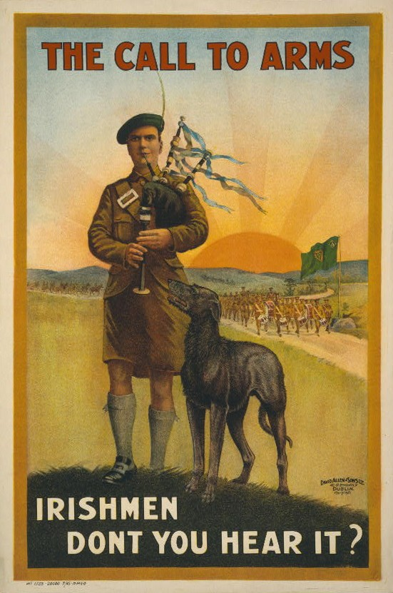 World War I recruitment poster : "The call to arms. Irishmen don't you hear it?" : David Allen & Sons Ltd., 40 Gt. Brunswick St., Dublin.